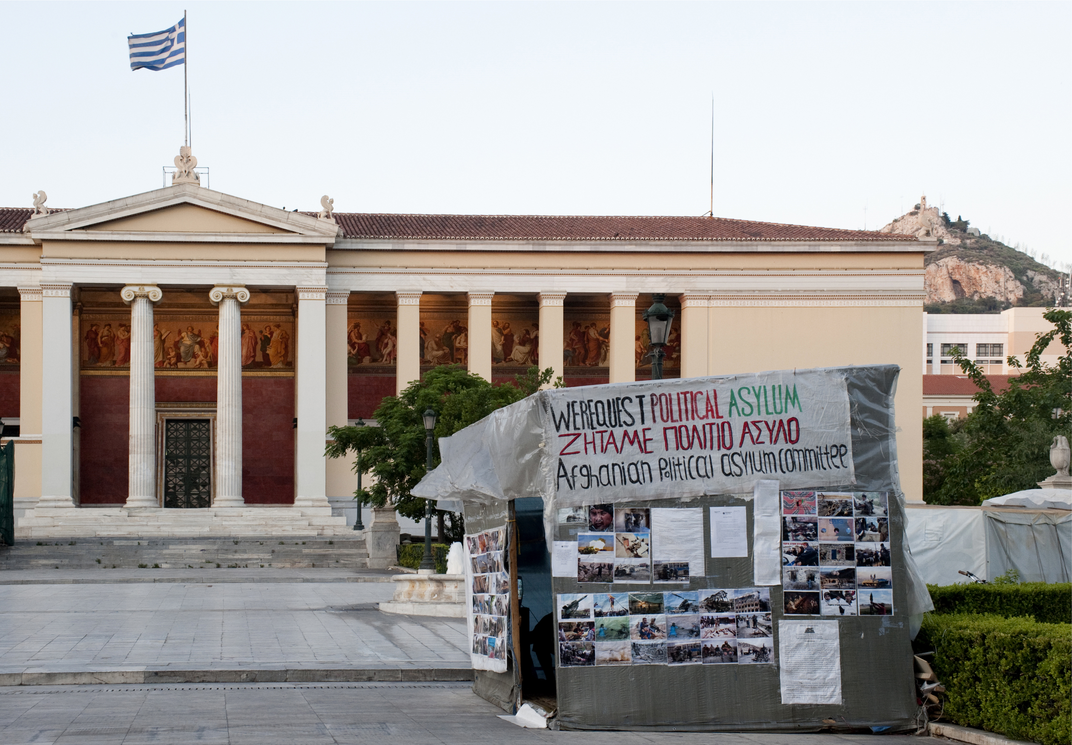 Afghan asylum seeks protesting in front of the University of Athens, Greece.